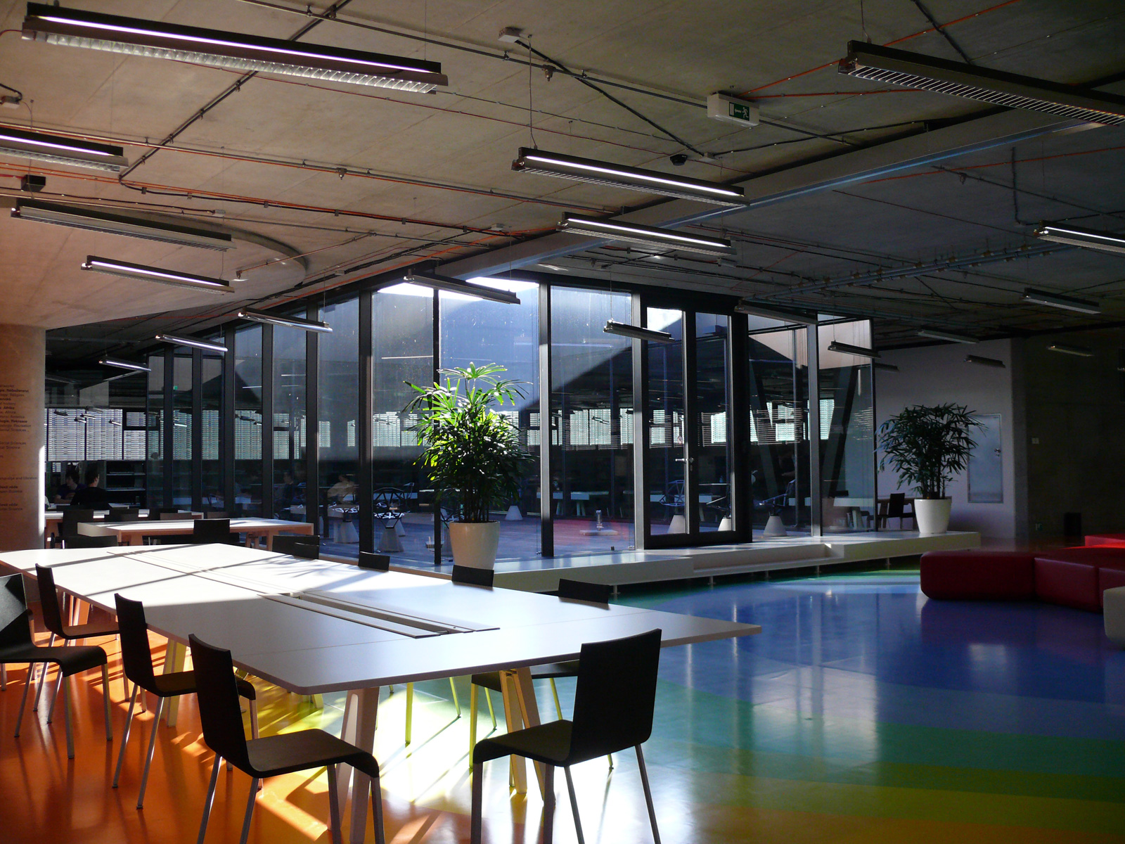 NTK (Prague, CZ)